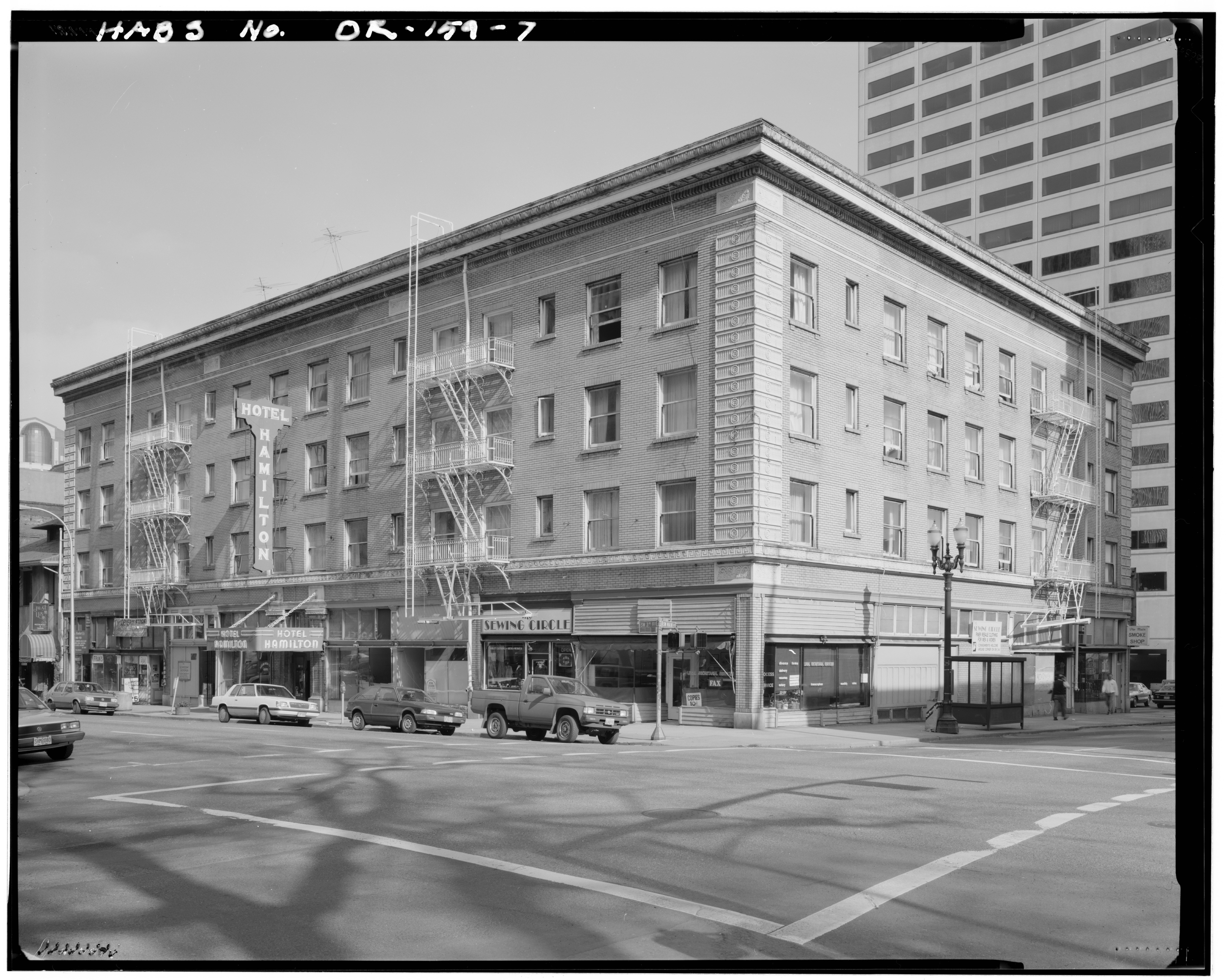 OR-159-7 "SW corner of building at SW Third Avenue and Main Street. 120mm." Photo by John Stamets, HABS. This file comes from the Historic American Buildings Survey (HABS), Historic American Engineering Record (HAER) or Historic American Landscapes Survey (HALS). These are programs of the National Park Service established for the purpose of documenting historic places. Records consist of measured drawings, archival photographs, and written reports. This tag does not indicate the copyright status of the attached work. A normal copyright tag is still required. See Commons:Licensing for more information. English | +/− This work is in the public domain in the United States because it is a work prepared by an officer or employee of the United States Government as part of that person’s official duties under the terms of Title 17, Chapter 1, Section 105 of the US Code. See Copyright. Note: This only applies to original works of the Federal Government and not to the work of any individual U.S. state, territory, commonwealth, county, municipality, or any other subdivision. This template also does not apply to postage stamp designs published by the United States Postal Service since 1978. (See 206.02(b) of Compendium II: Copyright Office Practices). It also does not apply to certain US coins; see The US Mint Terms of Use. This file has been identified as being free of known restrictions under copyright law, including all related and neighboring rights.